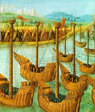 4th crusade